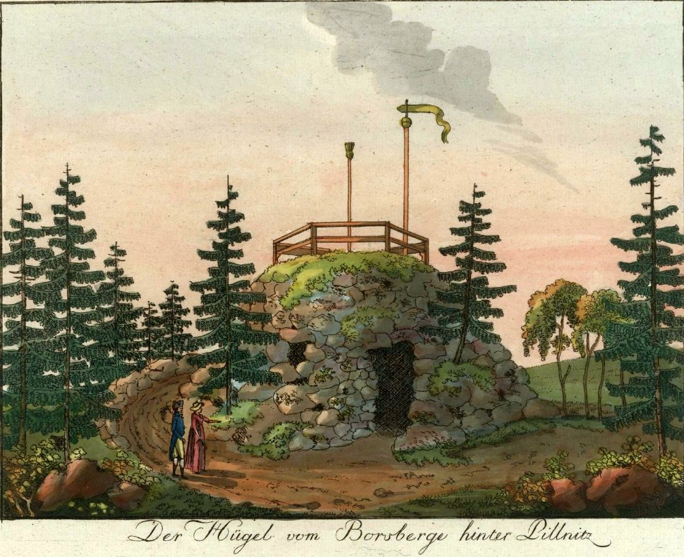 Summit of Borsberg near Pillnitz, around 1800